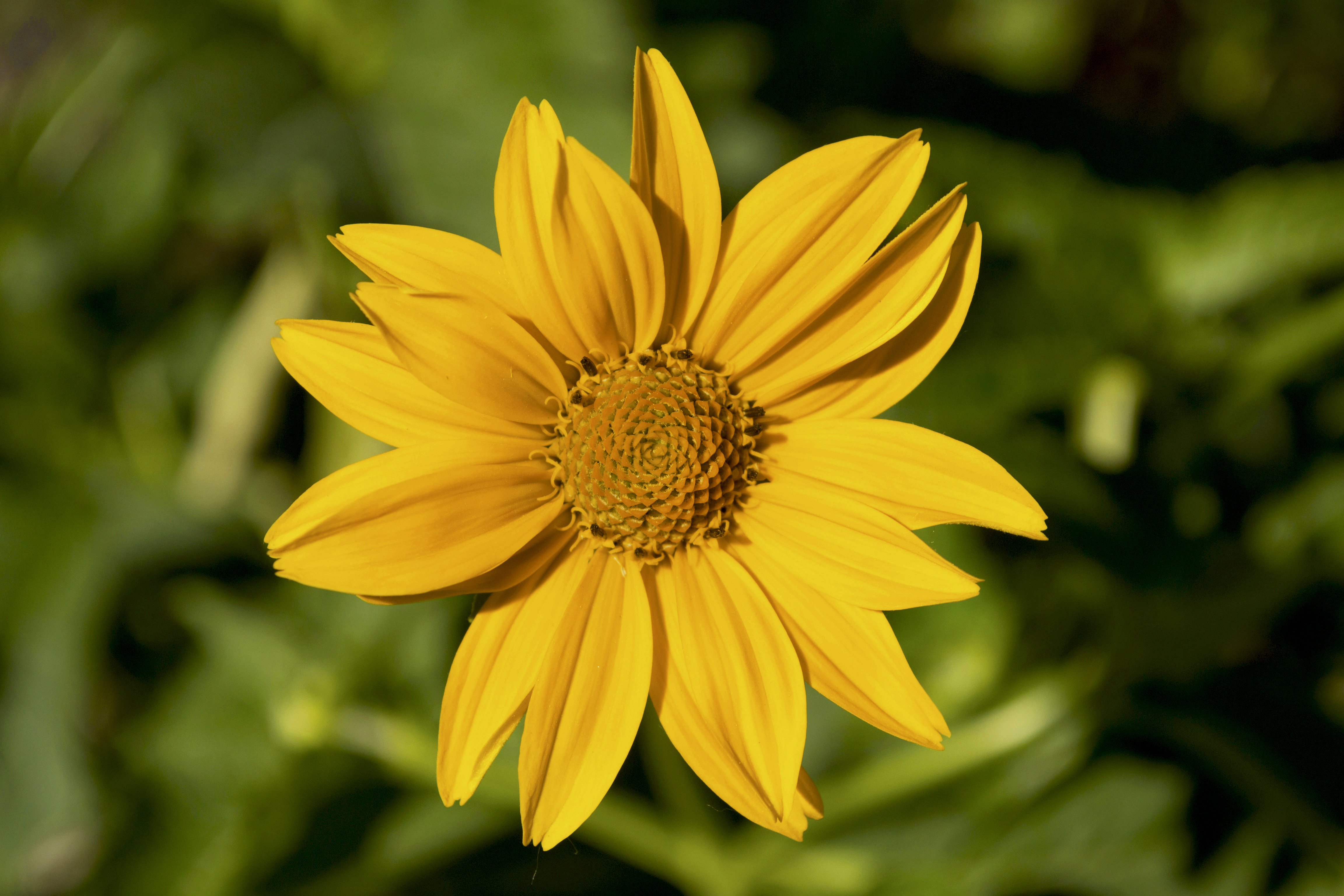 Heliopsis helianthoides